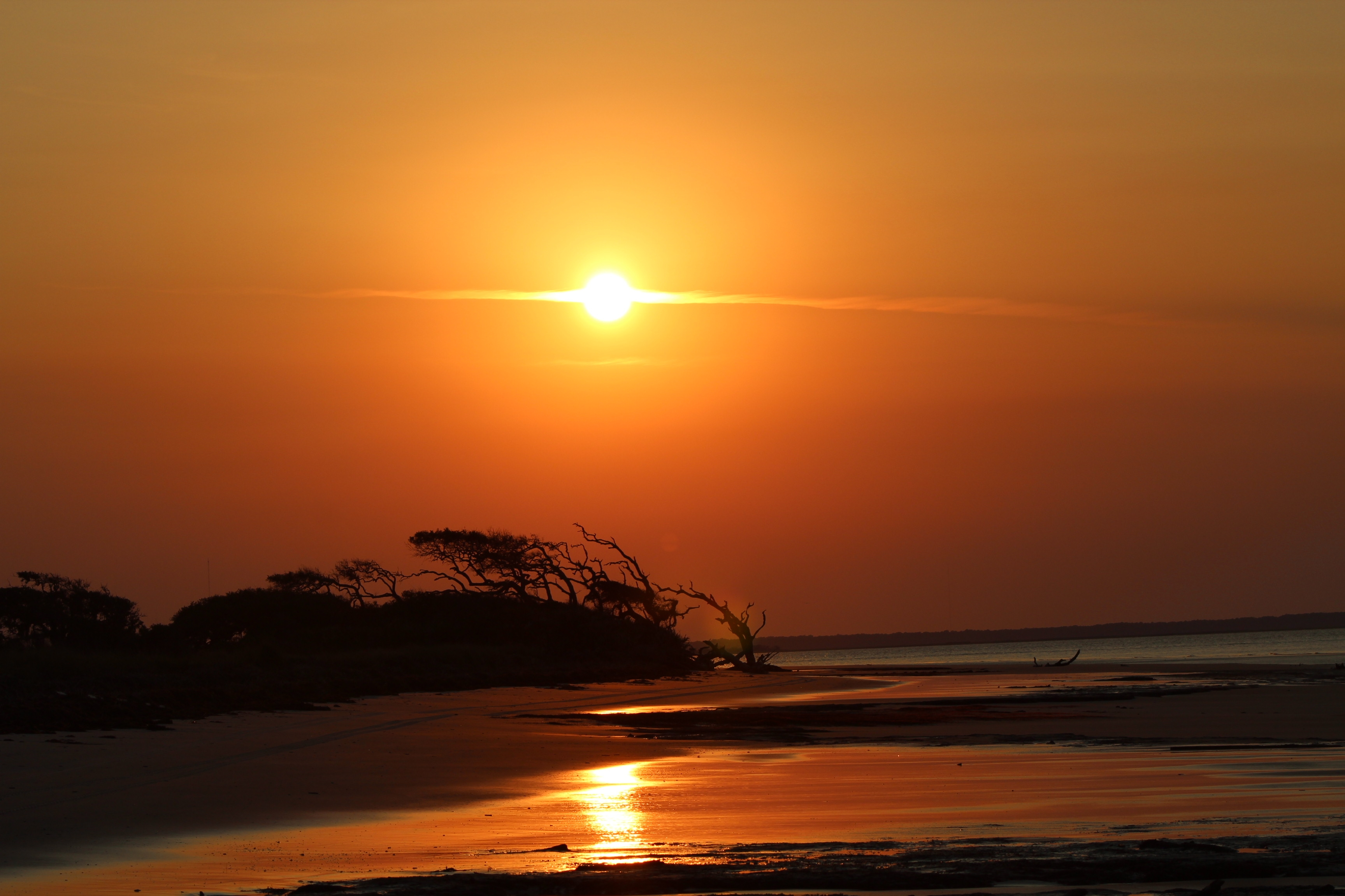 July 17, 2012 - Blackbeard Island, GA. Sunset over the edge of Blackbeard's boneyard beach. Credit: USFWS/Molly Martin